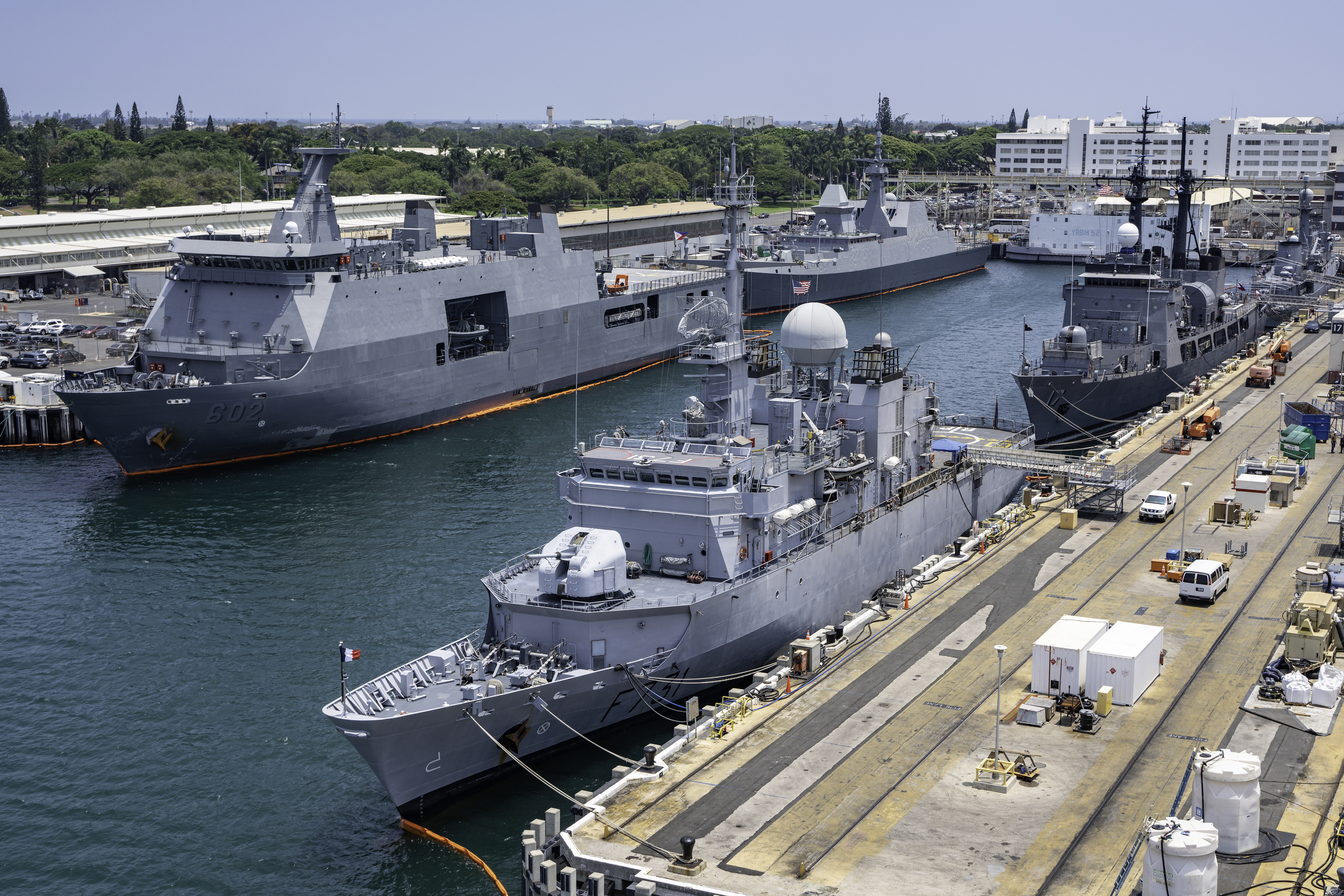 180702-N-CW570-1431 JOINT BASE PEARL HARBOR-HICKAM, Hawaii (July 2, 2018) International ships participating in Rim of the Pacific (RIMPAC) 2018 exercise moor at Joint Base Pearl Harbor-Hickam prior to beginning the at-sea phase of the exercise. Twenty-five nations, 46 ships, five submarines, about 200 aircraft and 25,000 personnel are participating in RIMPAC from June 27 to Aug. 2 in and around the Hawaiian Islands and Southern California. The world’s largest international maritime exercise, RIMPAC provides a unique training opportunity while fostering and sustaining cooperative relationships among participants critical to ensuring the safety of sea lanes and security of the world’s oceans. RIMPAC 2018 is the 26th exercise in the series that began in 1971. (U.S. Navy photo by Mass Communication Specialist 1st Class Arthurgwain L. Marquez)